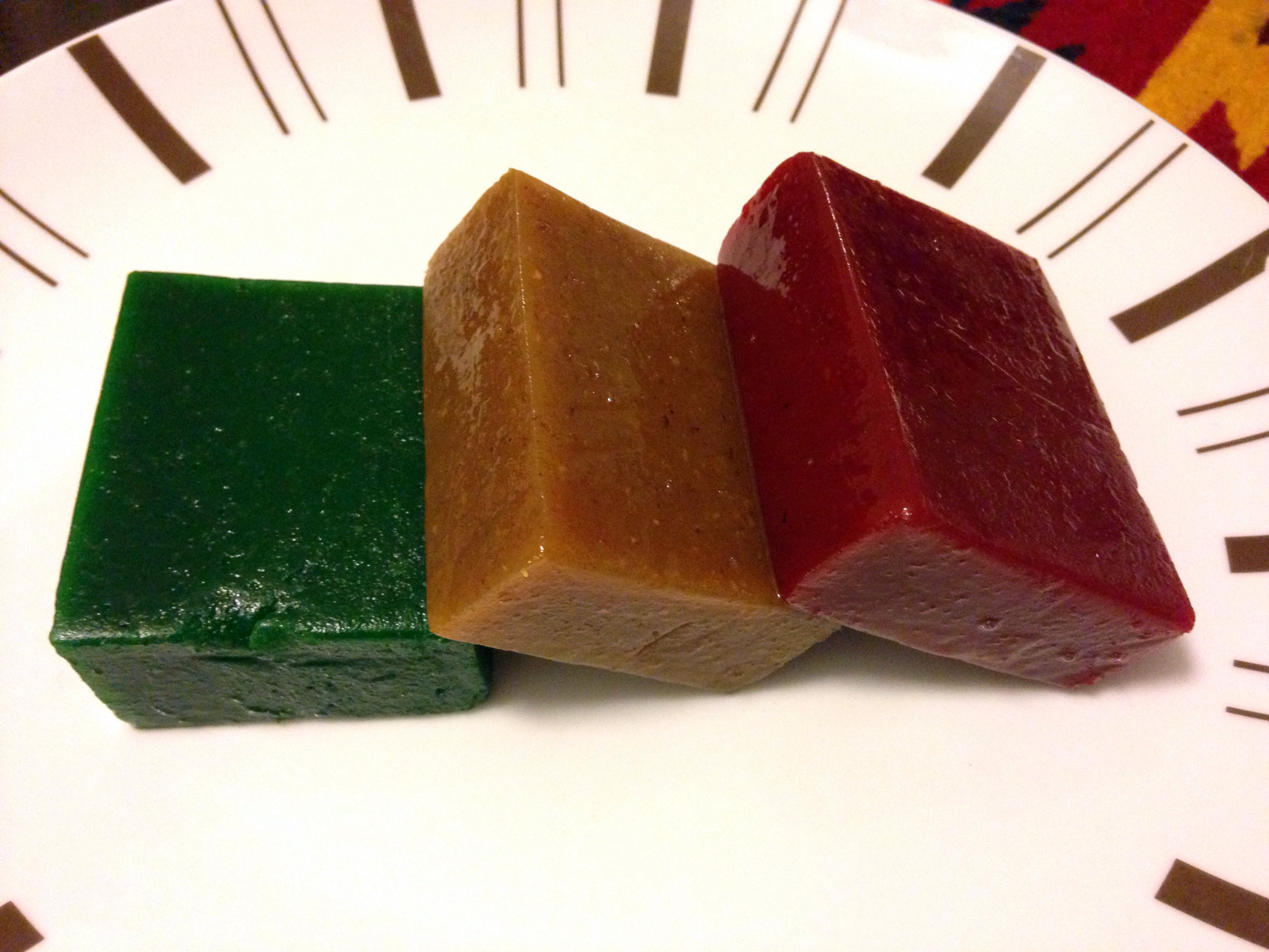 Pear, membrillo and guava ate. Mexican sweet bought in Mexico City